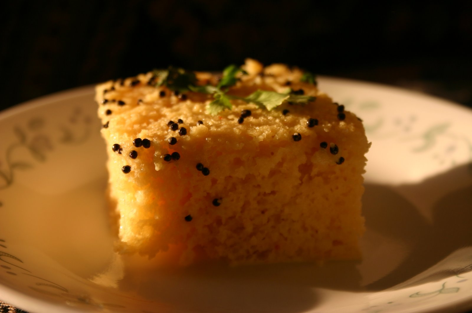 A piece of khaman.